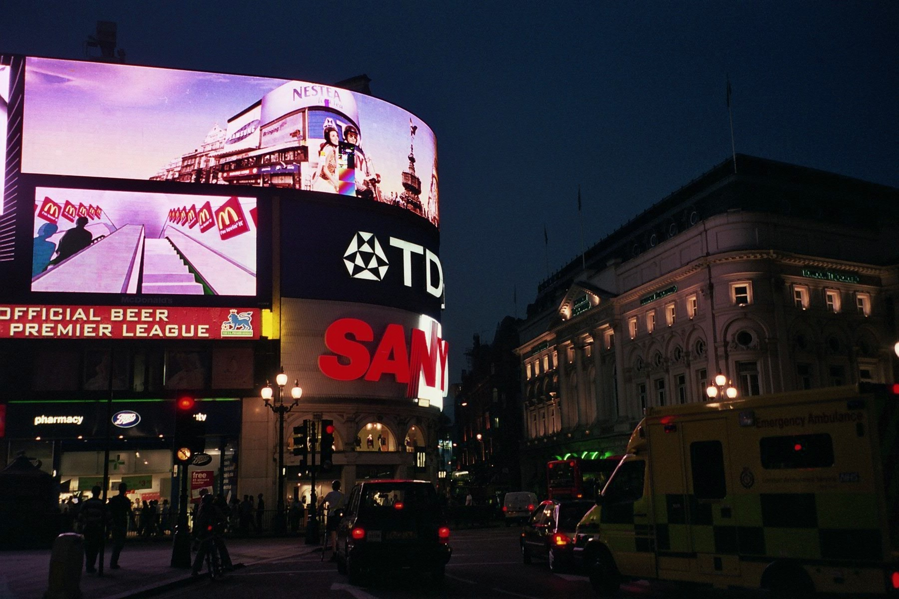 London, Piccadilly Circus